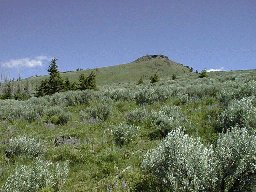 United States Forest Service photo of the Monument Rock Wilderness.